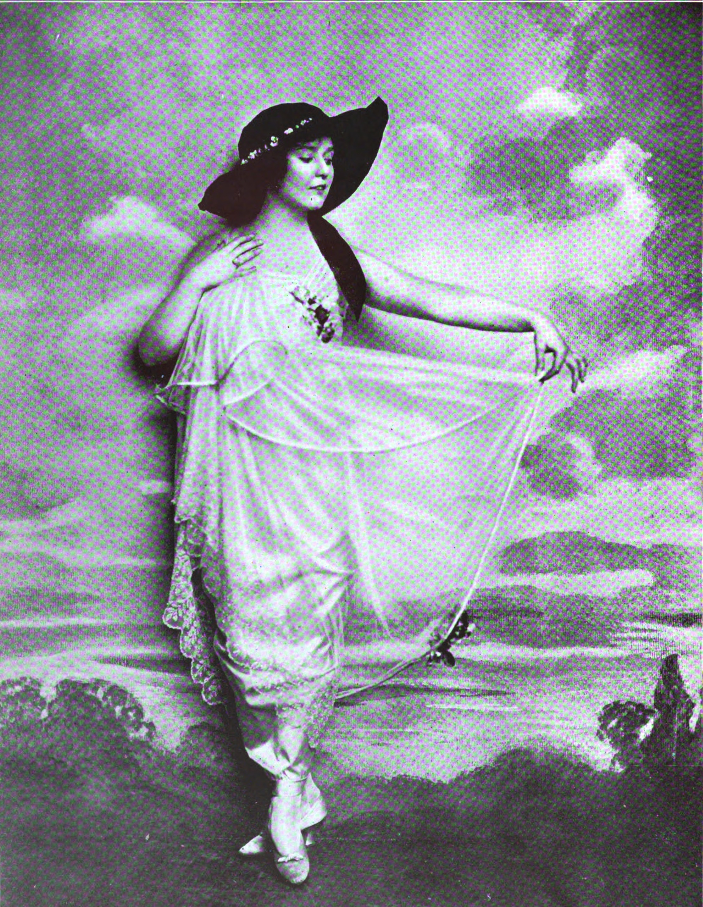 Portrait of American actress Phoebe Foster from the March 1916 issue of Vanity Fair.